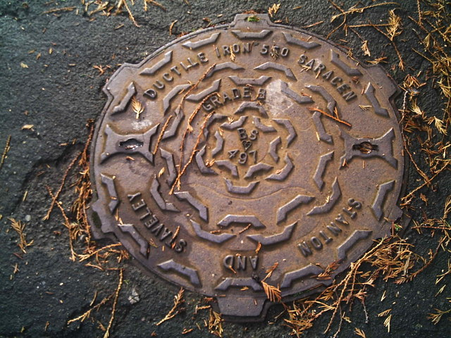 Main sewage manhole cover near church, Woolsthorpe This interesting manhole cover caught my eye when lit up by bright sunshine.